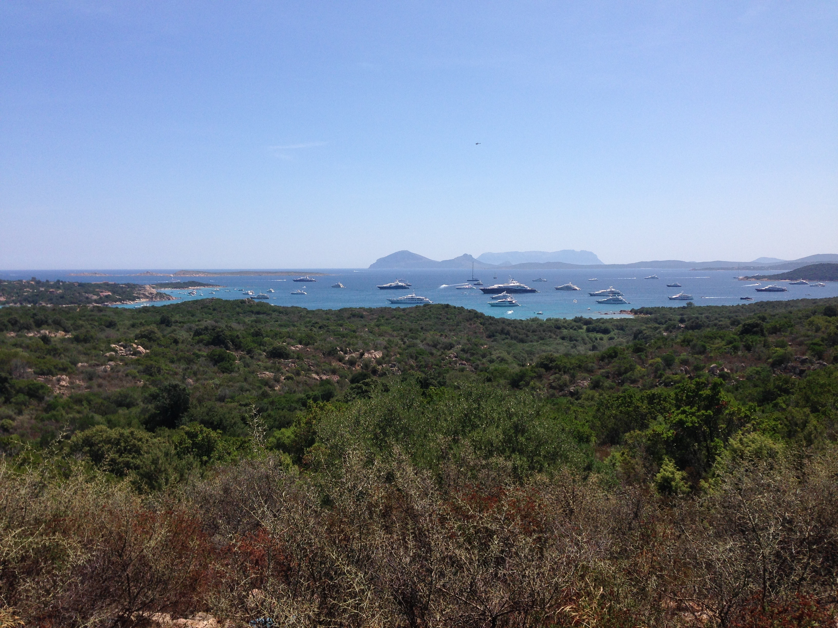 Panoramic view of Costa Smeralda